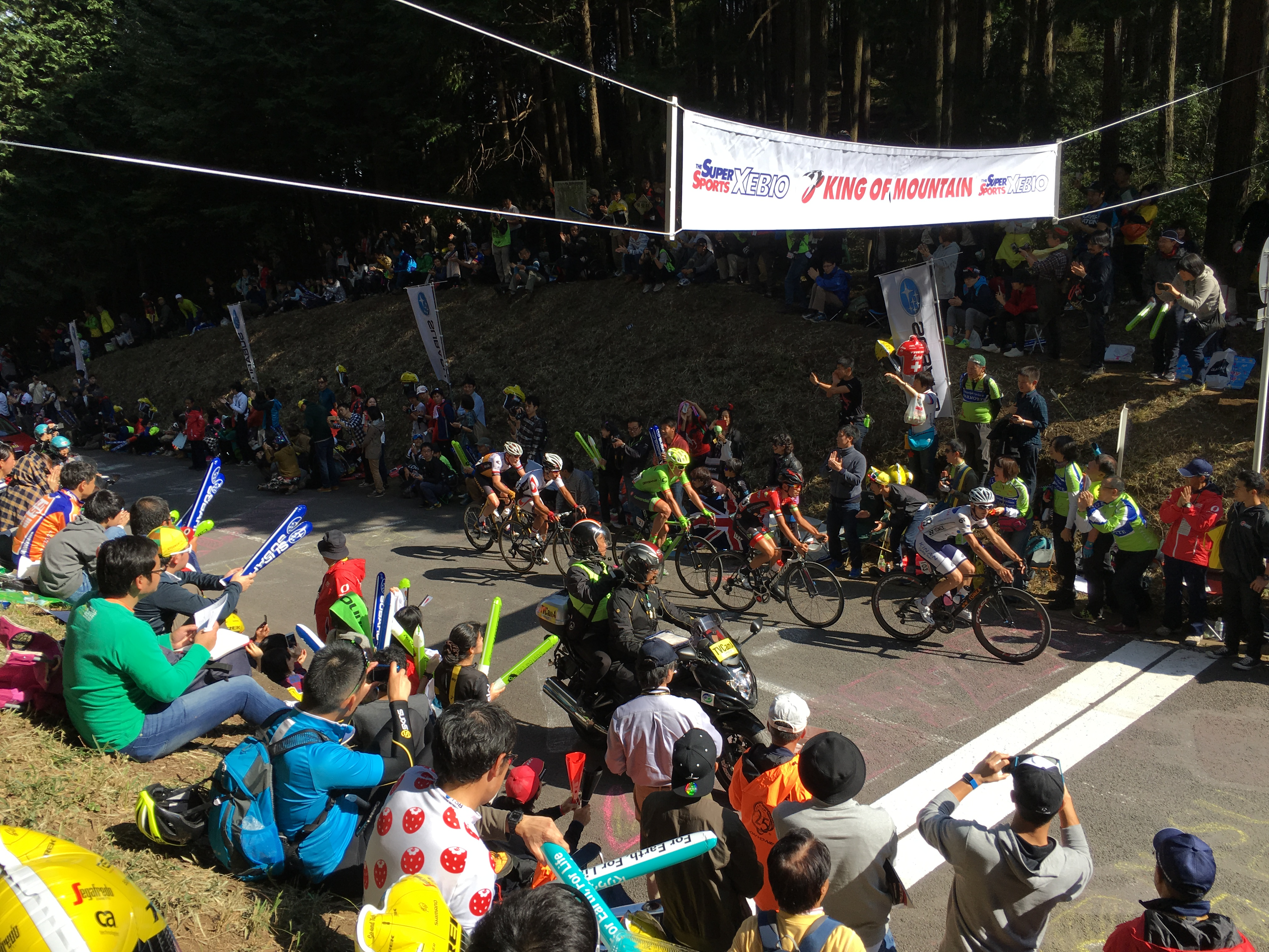 A five-riders breakaway passes the top of the hill of Kogashi, 2016 Japan Cup Cycle Road Race.